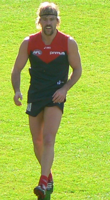 Nathan Carrol, Aussie Rules player